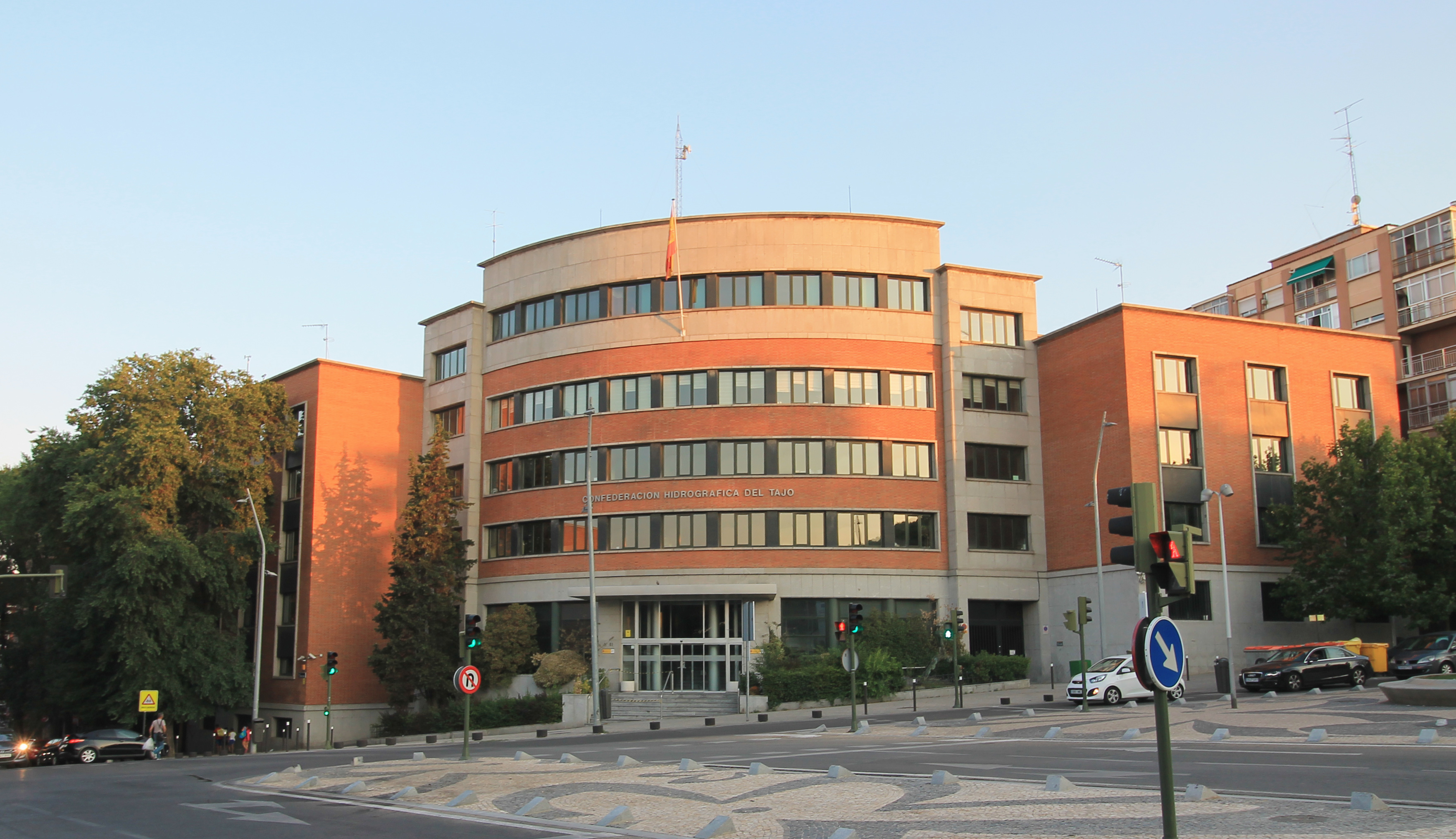 Headquarters of the River Tagus Hydrographic Confederation, at 81 Avenida de Portugal (street) in Madrid (Spain). Building from 1968.